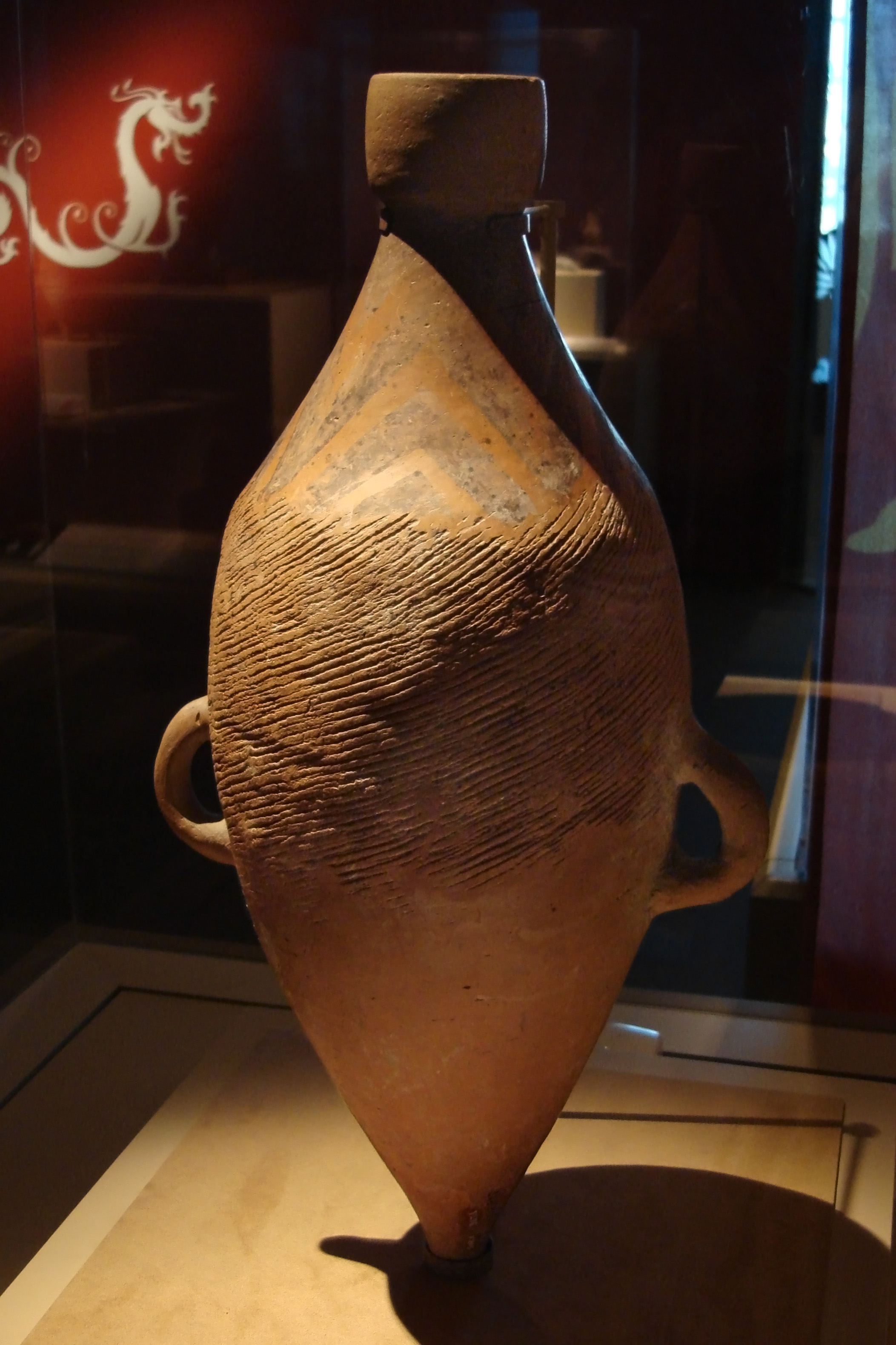 Water Jar Yangshao Culture Neolithic Period (ca. 5000 - 3000 B.C.) Excavated at Baoji, Shaanxi Province, 1958 Ropes of clay were used to build this vessel, then were smoothed out and decorated. It was used to draw water from wells and rivers, lowered on ropes threaded through its handles; when empty its center of gravity would cause it to tip forward, and when full it would return to its upright position.